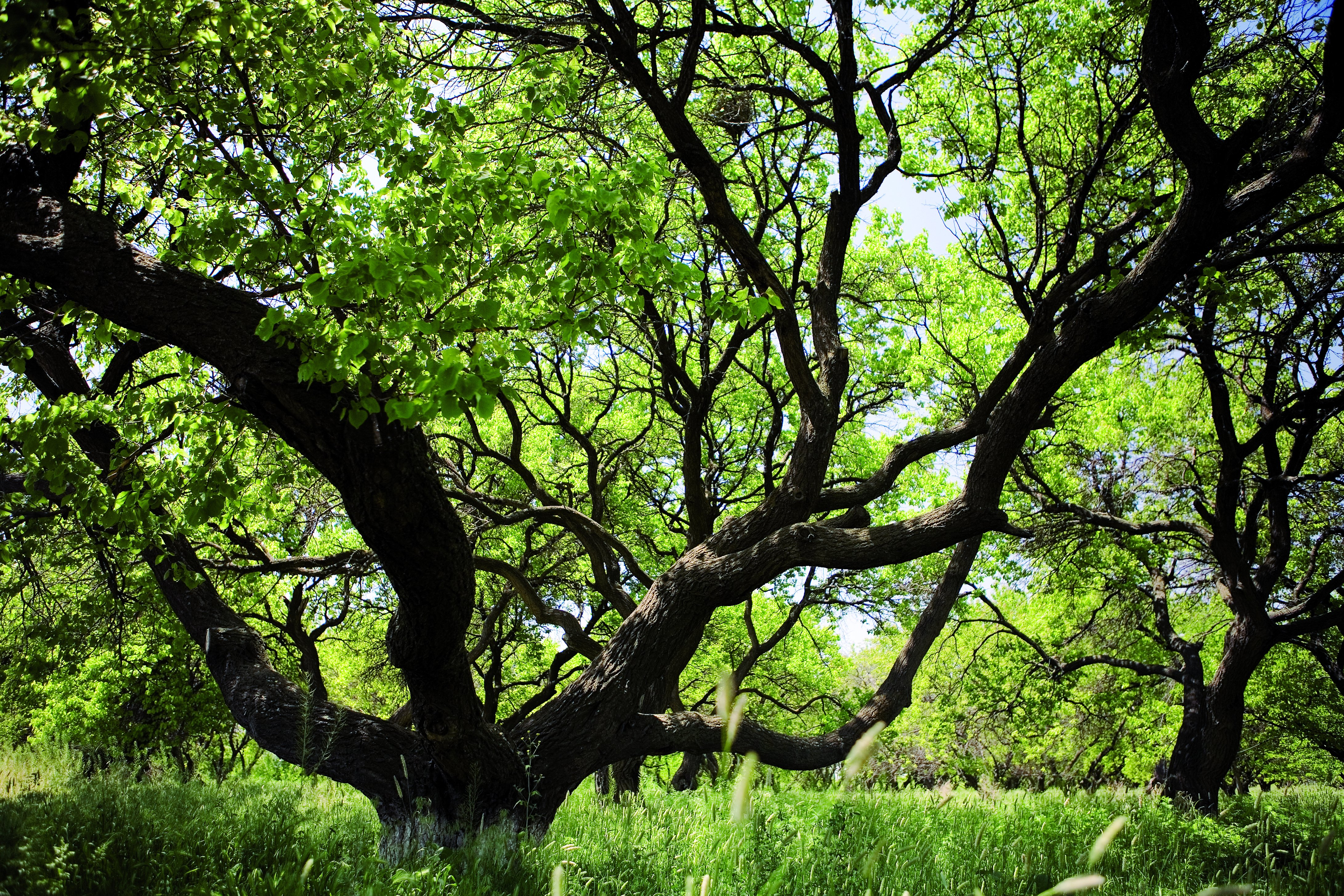 The Apricot Garden near Artashat